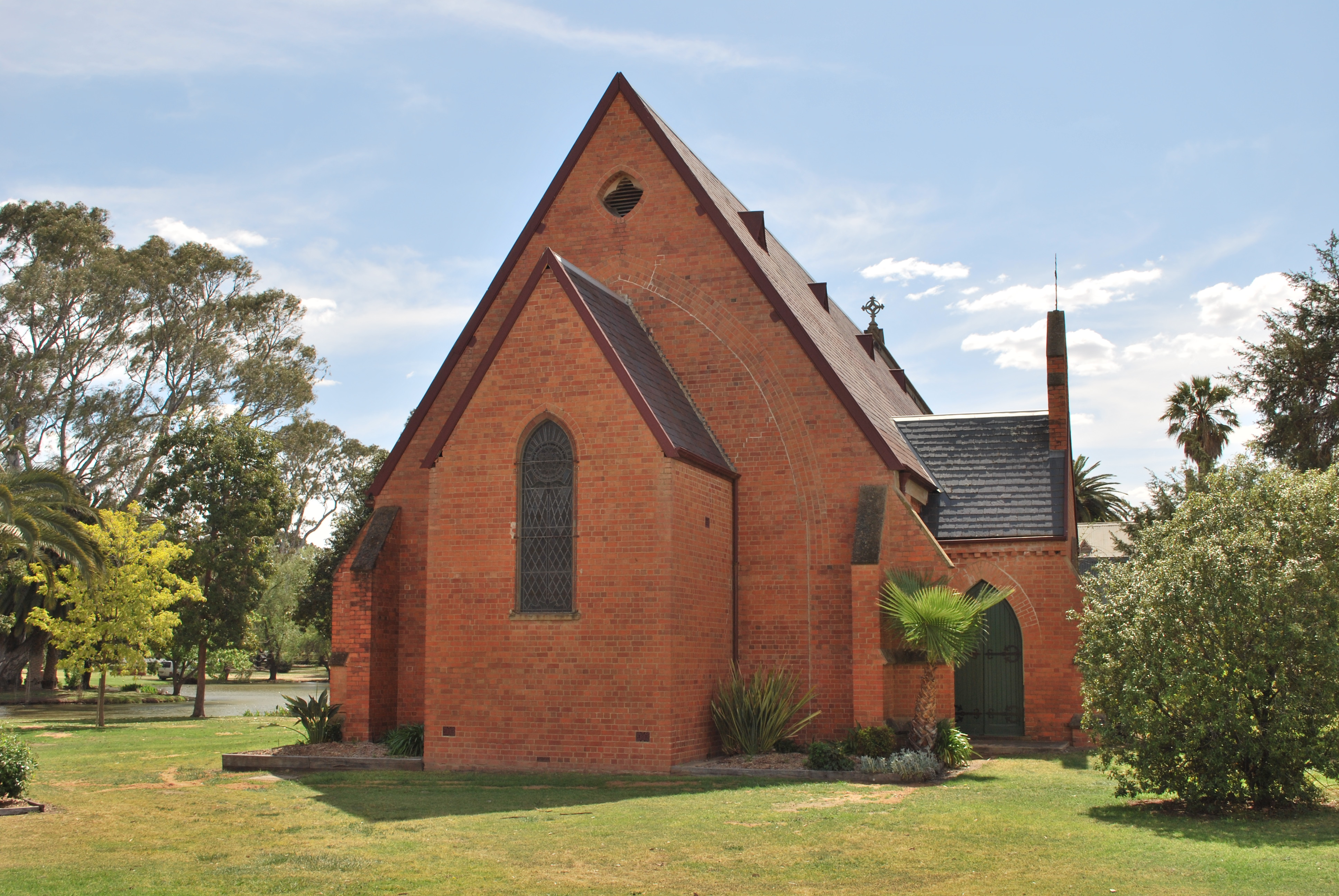 Historic Anglican church at Deniliquin, New South Wales